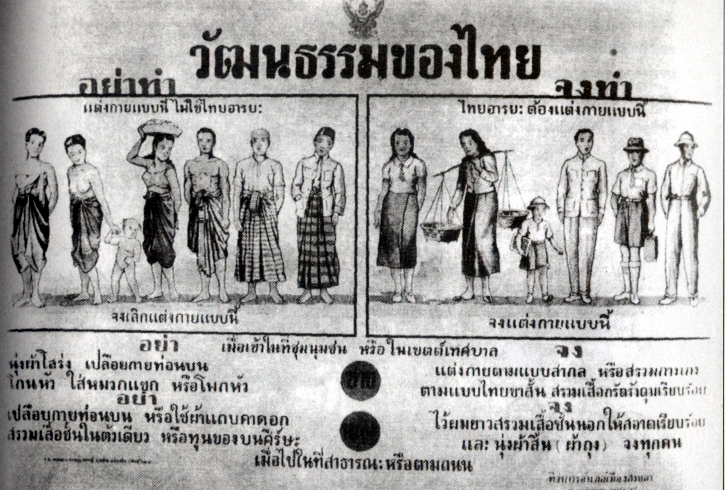 A Thai government poster from the Marshal Plaek Pibulsonggram-era (1938-1945) promoting the "civilized" form of dress.